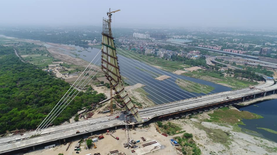 Signaturebridgenedelhi